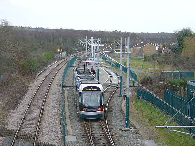 Tram at Butlers Hill stop The tram runs on single track with passing loops at stops between Bulwell and Hucknall